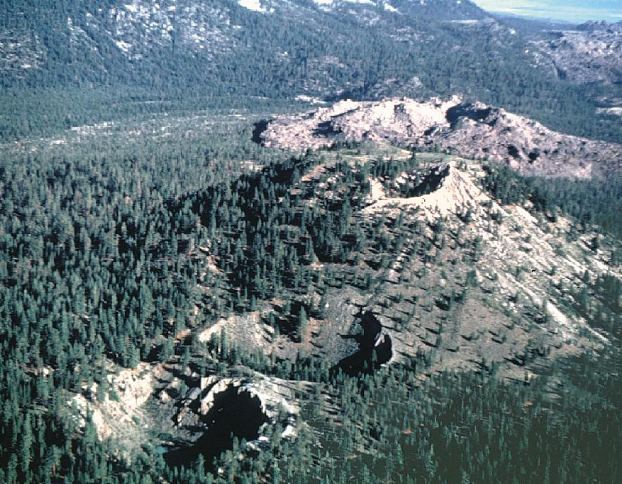 Air photo of Inyo Craters in California, USA. The three Inyo Craters, part of the Mono-Inyo Craters volcanic chain, stretch northward across the floor of Long Valley Caldera, a large volcanic depression in eastern California. During the past 1,000 years there have been at least 12 volcanic eruptions along the chain, including those that formed the Inyo Craters and South Deadman Creek Dome (seen here just beyond the farthest Crater).